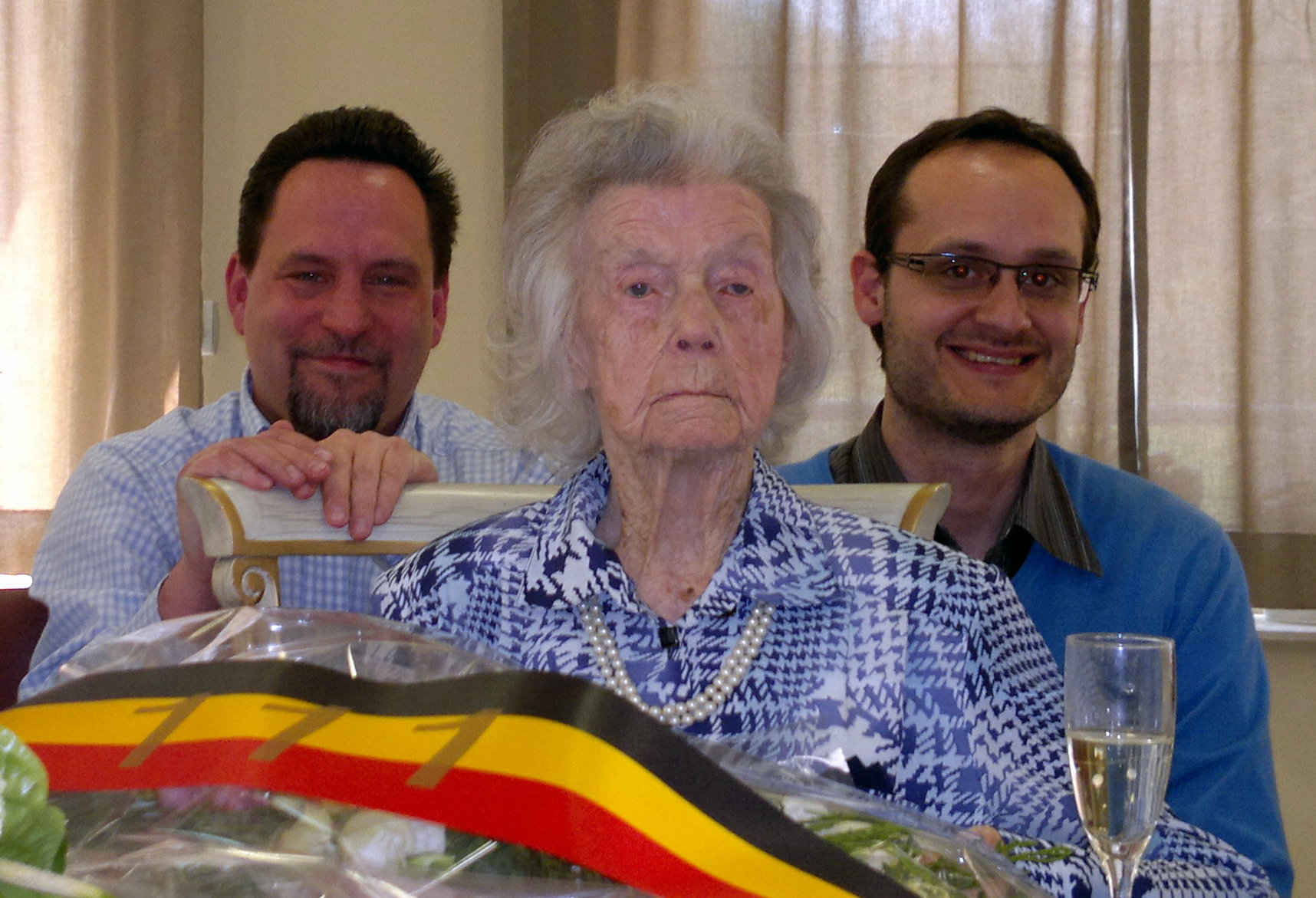 Fanny Godin at her 111th birthday, together with Belgian GRG-correspondents Anthony Croes-Lacroix et Peter Vermaelen